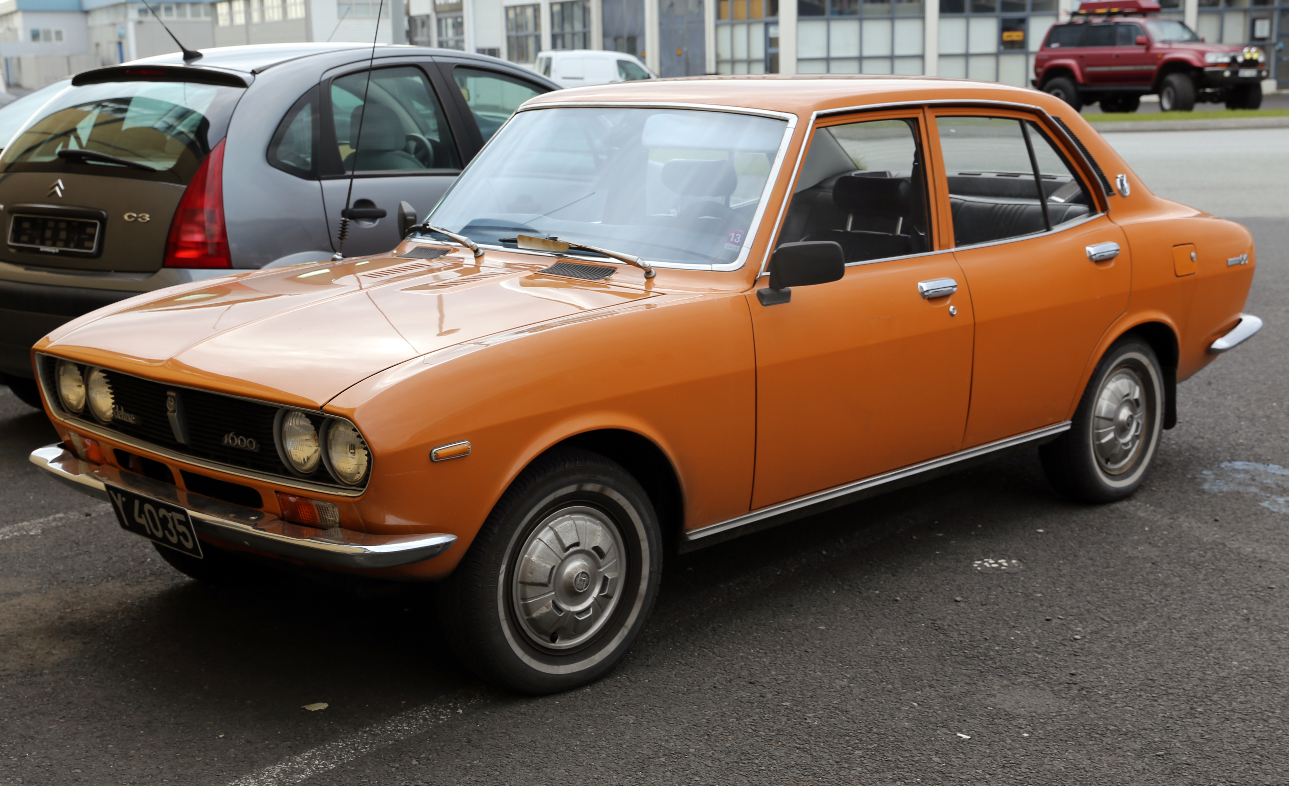 1973 Mazda 616 1600 Deluxe in incredible condition, in a port quarter of Reykjavík, Iceland.